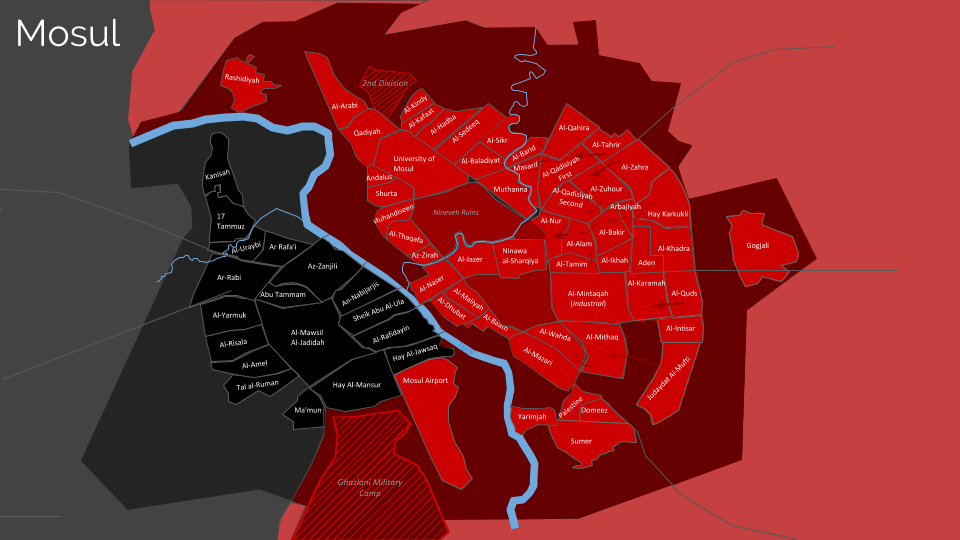 Ongoing battle in Mosul as of February the 24th, 2017